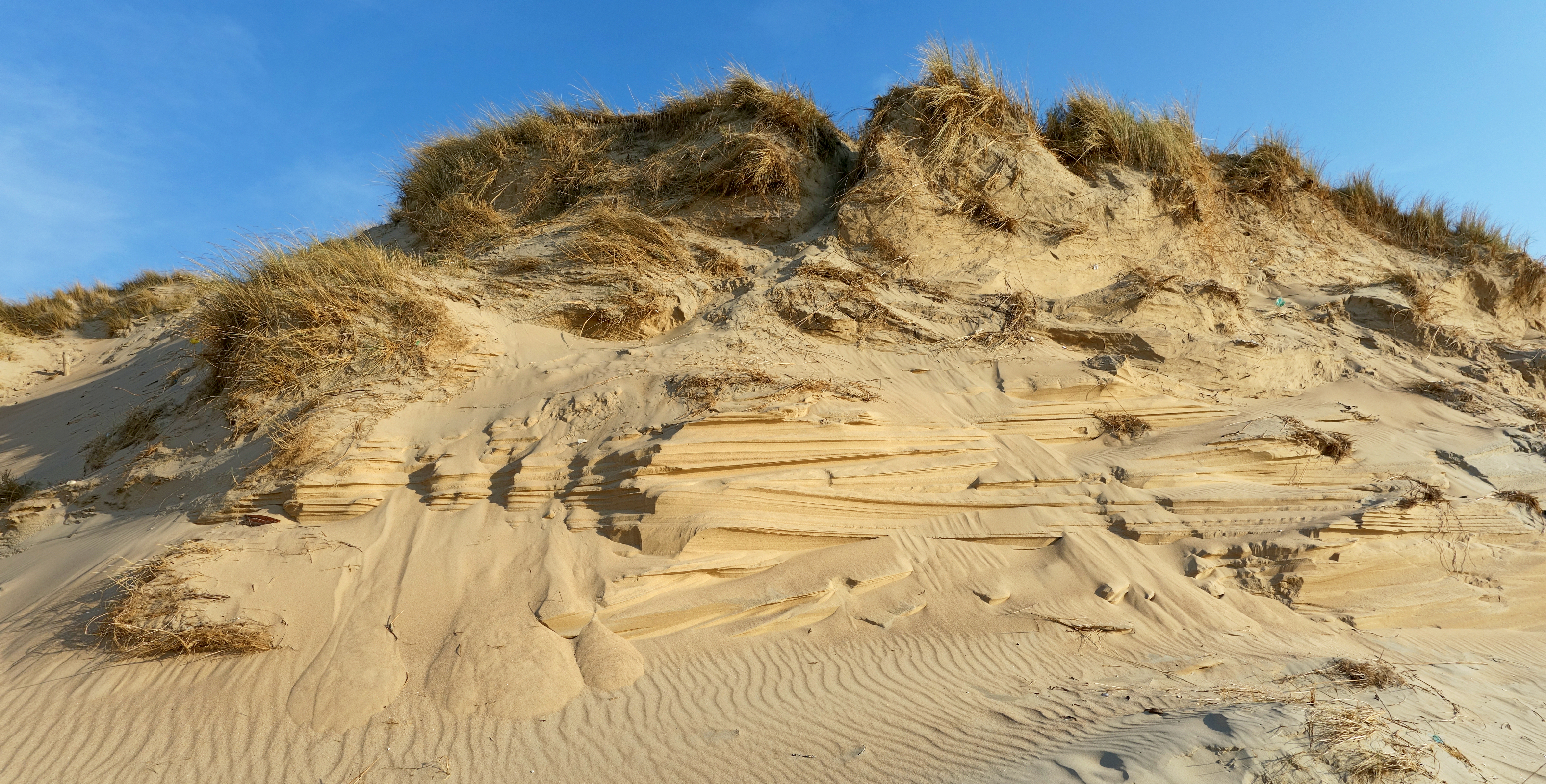 Clay outcrops in the Dunes de la Slack, near Ambleteuse, France.